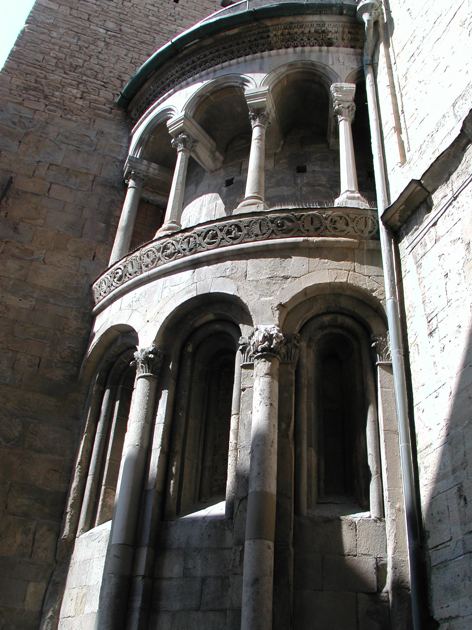 Abside of the church of Santa Maria Maggiore, Bergamo, Italy